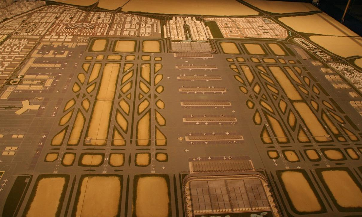 Project of largest airport in the world.